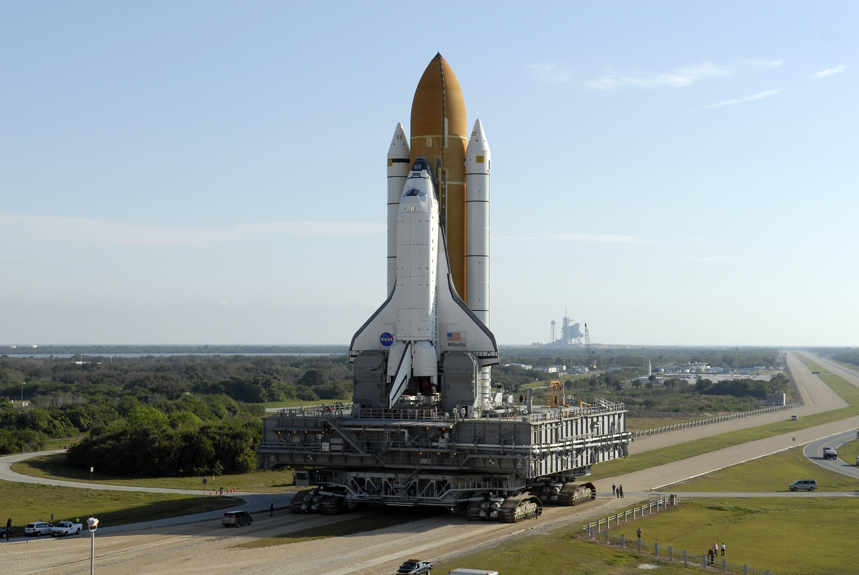 KENNEDY SPACE CENTER, FLA. -- Atop the massive mobile launcher platform and crawler-transporter, Space Shuttle Atlantis creeps toward Launch Pad 39A, seen in the background. First motion was at 8:19 a.m. The 3.4-mile trip along the crawlerway will take about 6 hours. The mission payload aboard Space Shuttle Atlantis is the S3/S4 integrated truss structure, along with a third set of solar arrays and batteries. The crew of six astronauts will install the truss to continue assembly of the International Space Station. Launch is targeted for March 15. Photo credit: NASA/Kim Shiflett